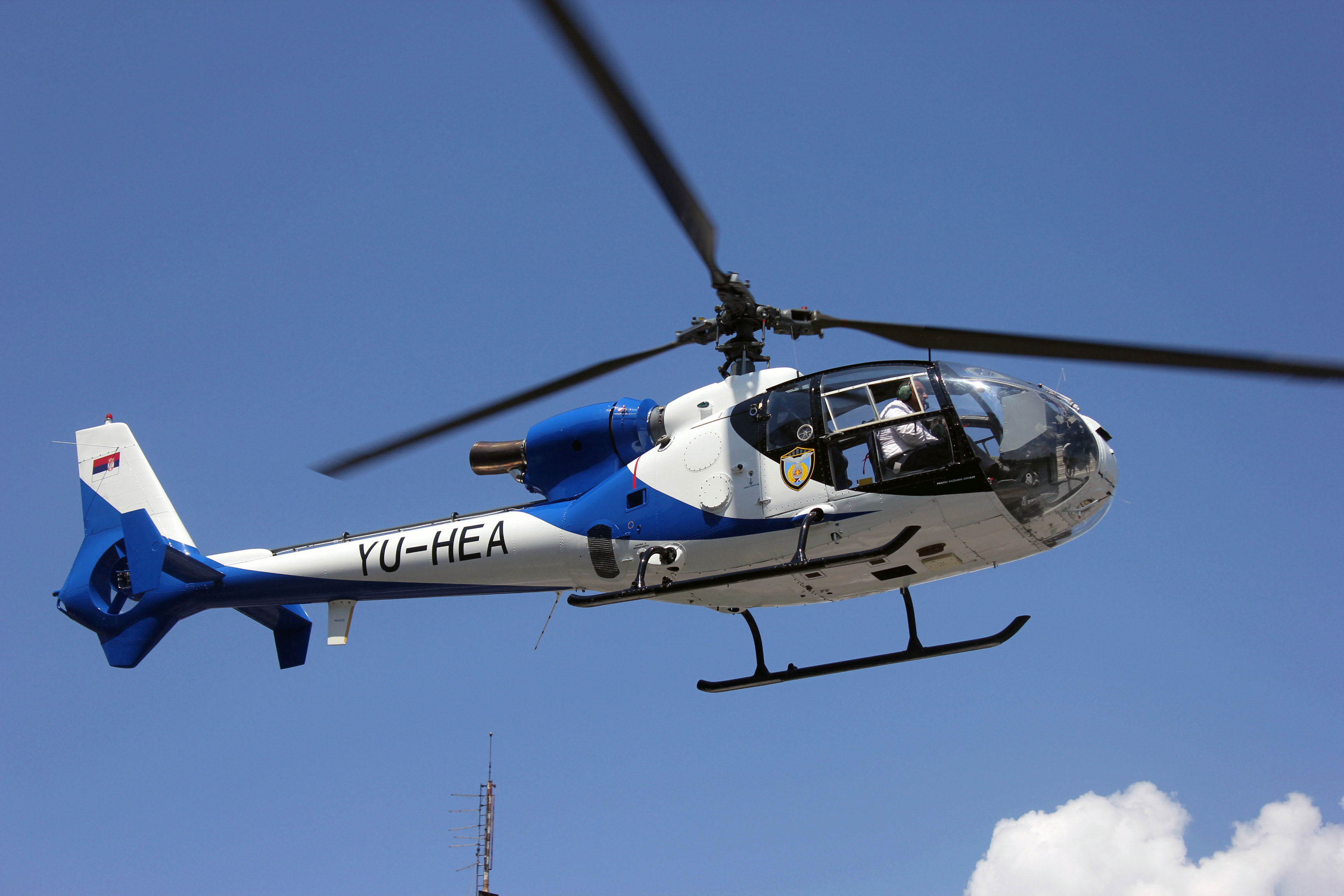 Serbian police helicopter unit Gazelle YU-HEA helicopter on 2018 Police Day parade at Belgrade.